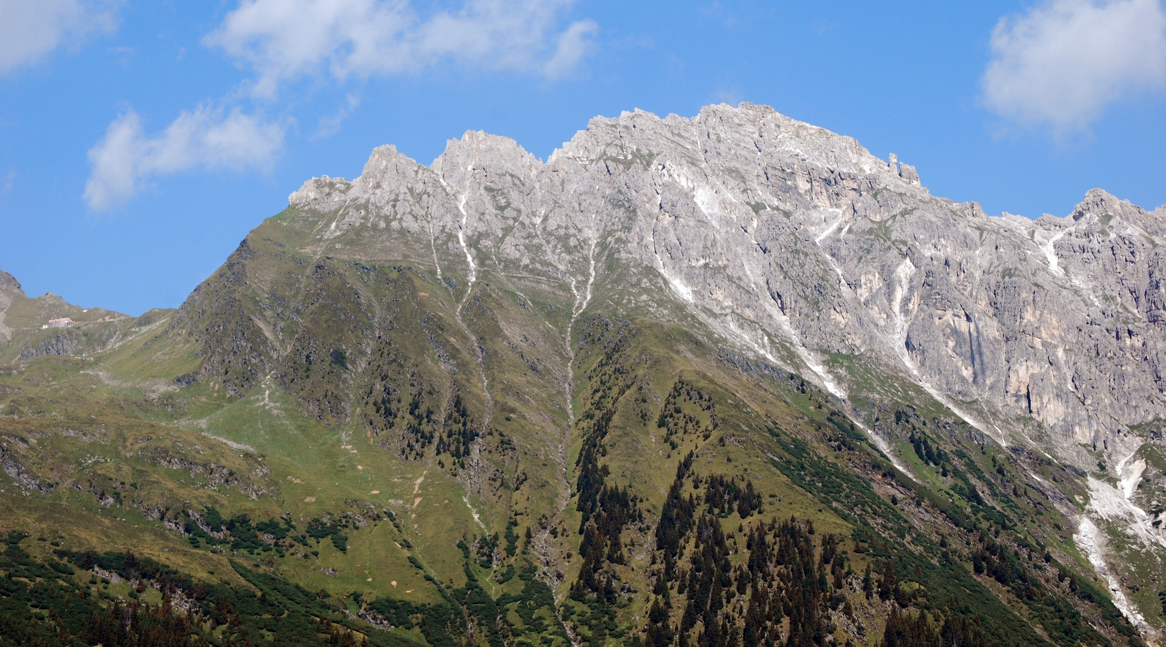 Kalkwand 2564m from South. left refuge Innsbrucker Hütte